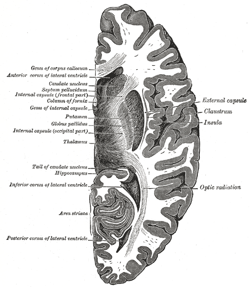 Horizontal section of right cerebral hemisphere.